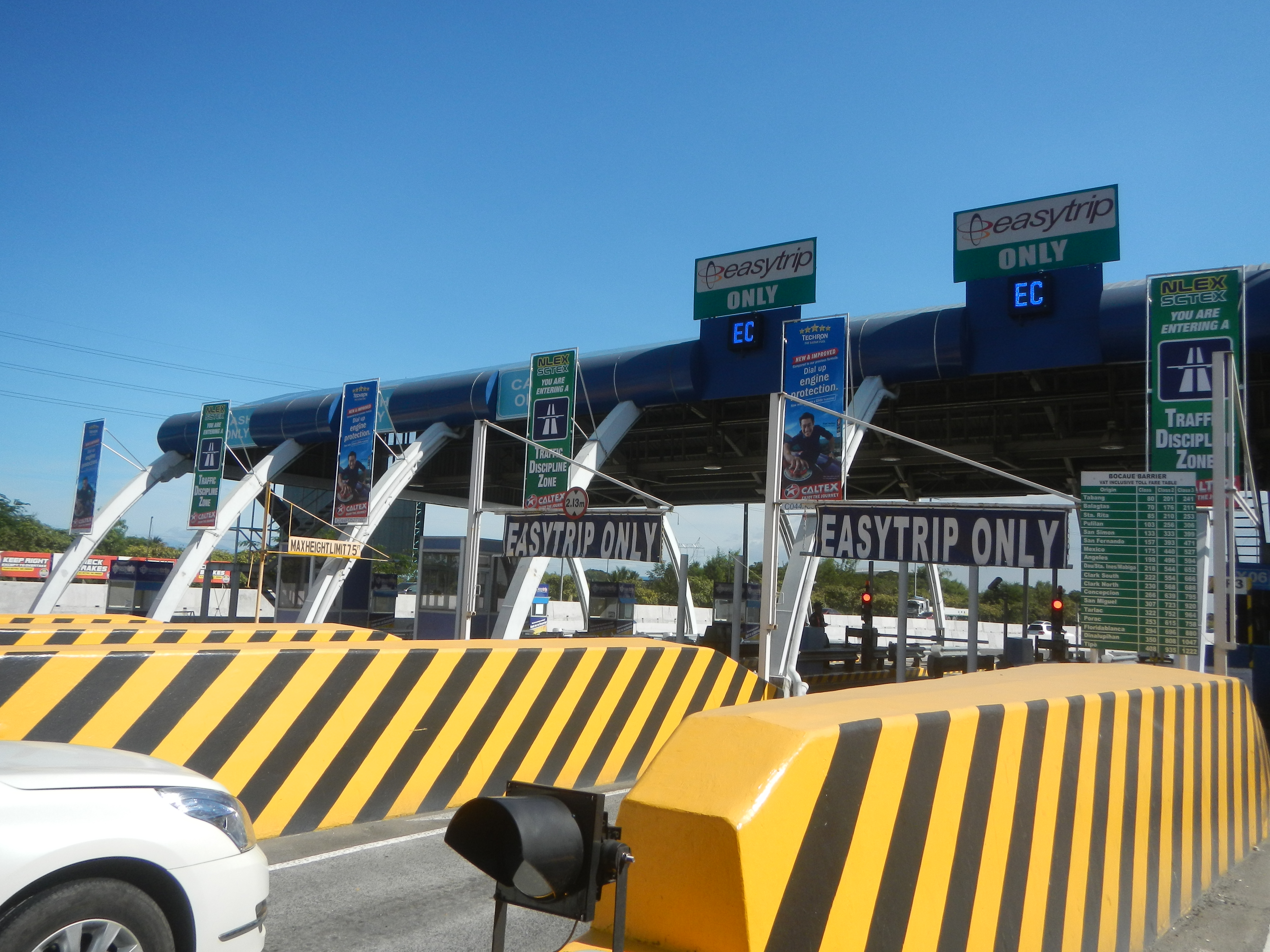 Barangay Patubig 14°46'23"N 120°57'12"E Santa Rosa I 14°46'37"N 120°58'9"E Loma de Gato 14°47'2"N 121°1'14"E Marilao, Bulacan Loma de Gato Streets M. Villarica Road (Marilao-San Jose Del Monte Road) 14°46'56"N 120°59'1"E accessed from MacArthur Highway or Manila North Road MacArthur Highway (Marilao and Bocaue, Bulacan section) or Manila North Road from Bocaue Exit, Toll Plaza - Marilao, Bulacan Interchange Exit, North Luzon Expressway (NLEx, R-8) NLEX - Marilao Exit (Marilao) 14°46'25"N 120°57'28"E North Luzon Expressway (NLEx) - Bocaue Toll Plaza 14°48'8"N 120°56'31"E NLEX - Bocaue Exit 14°48'26"N 120°56'21"E North Luzon Expressway (NLEx) (R-8) 14°57'8"N 120°46'42"E Guiguinto, Bulacan, from Guiguinto, Bulacan, beside Plaridel, Bulacan, North Luzon Expressway NLEx interchange Balagtas, Bulacan, Bulacan province towards MacArthur Highway or Manila North Road (Note: Judge Florentino Floro, the owner, to repeat, Donor Florentino Floro of all these photos hereby donate gratuitously, freely and unconditionally all these photos to and for Wikimedia Commons, exclusively, for public use of the public domain, and again without any condition whatsoever).